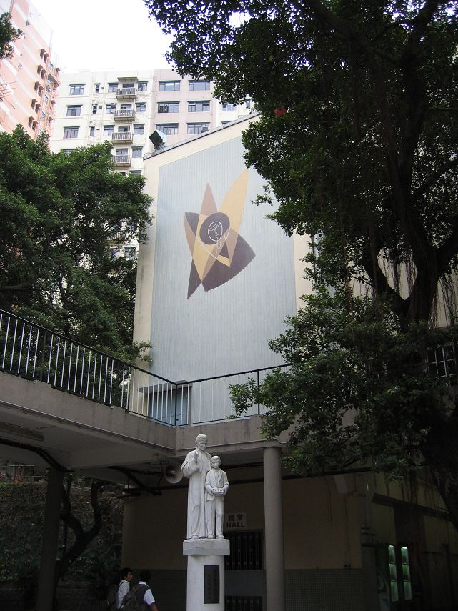 Bosco, Dominic, Mary in Tang King Po School KL HK